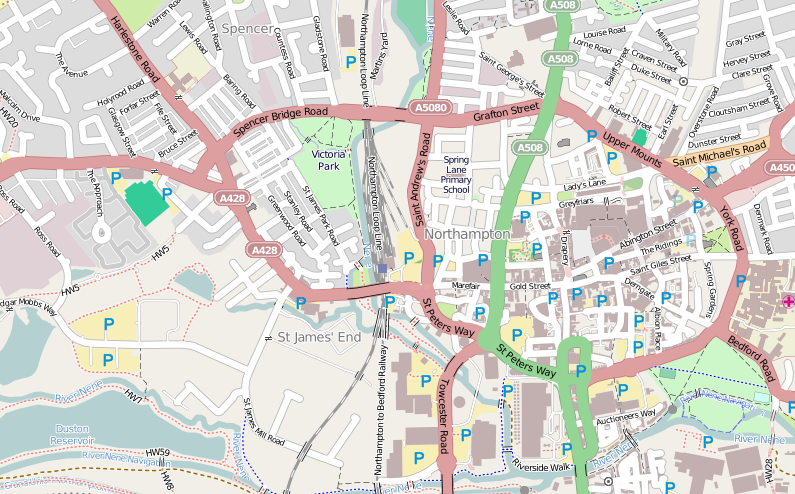 Map of Northampton Central Geographical limits: N: 52.246223° S: 52.230034° W: -0.927401° E: -0.885022°